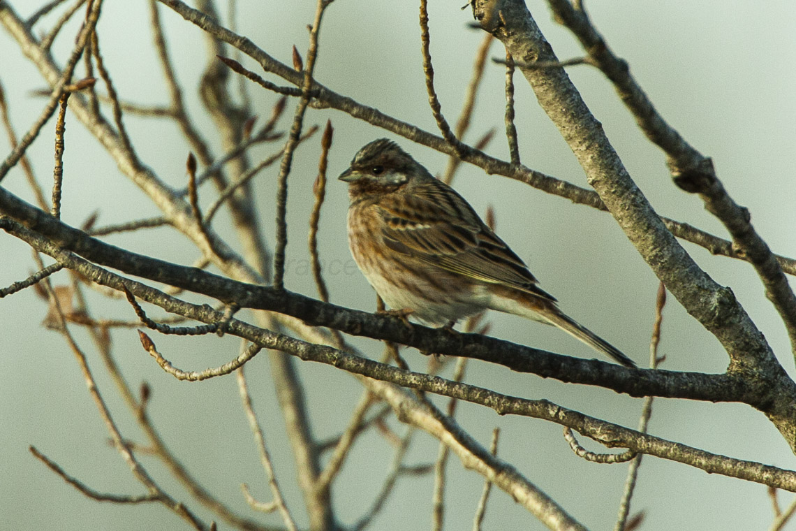 Pine Bunting - Magredi Vivaro - Italy_0028